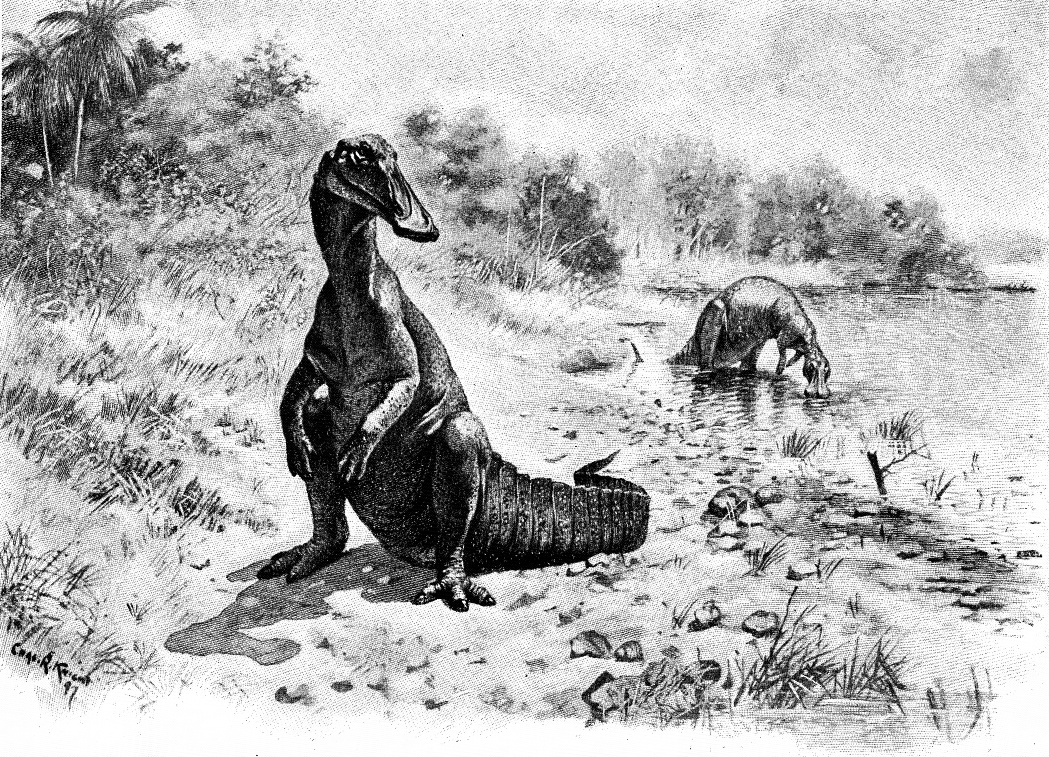 Historical life restoration of Edmontosaurus annectens (referred to as “Trachodon mirabilis” in the original figure caption).